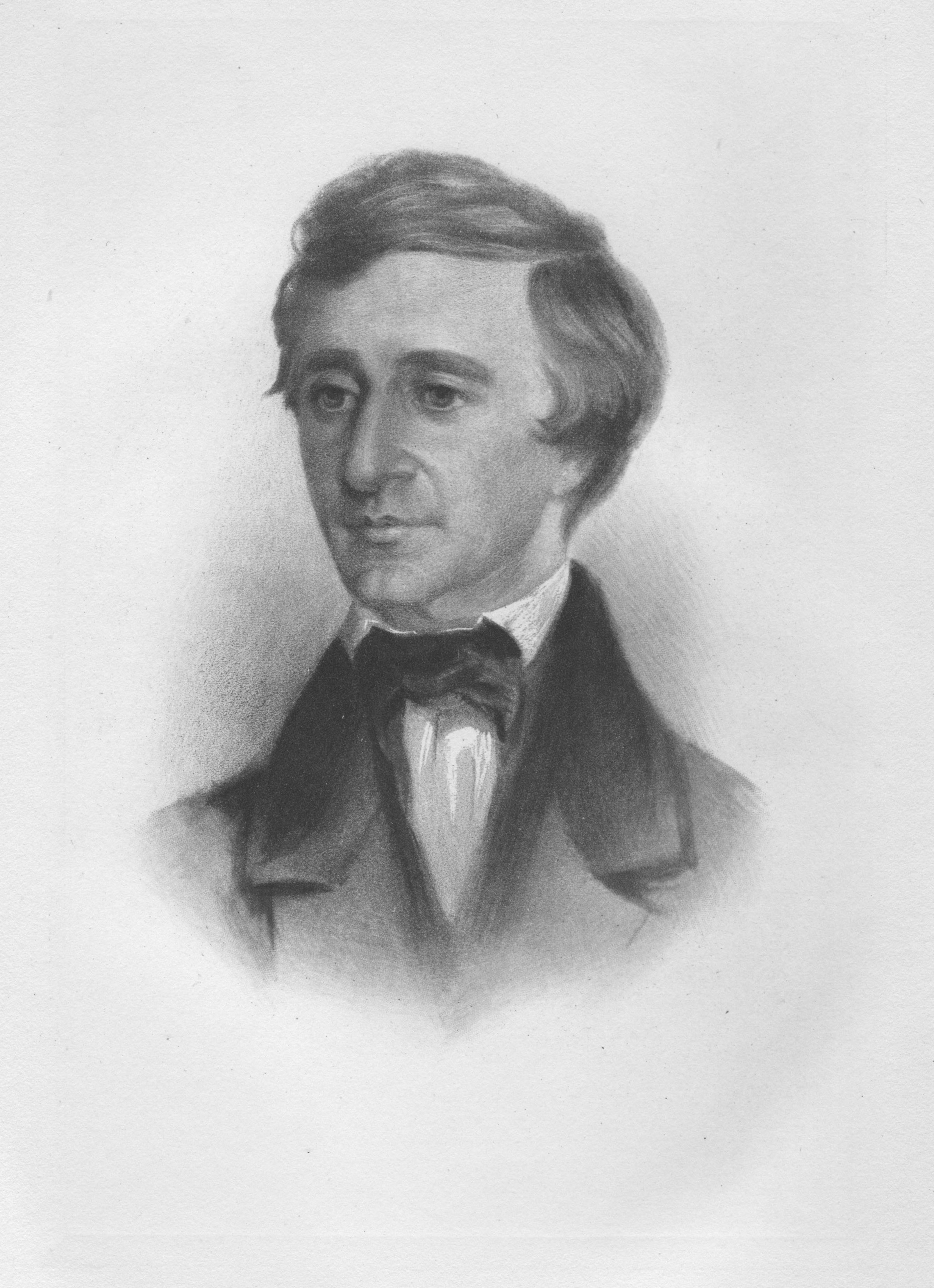 crayon portrait of Henry David Thoreau as a young man